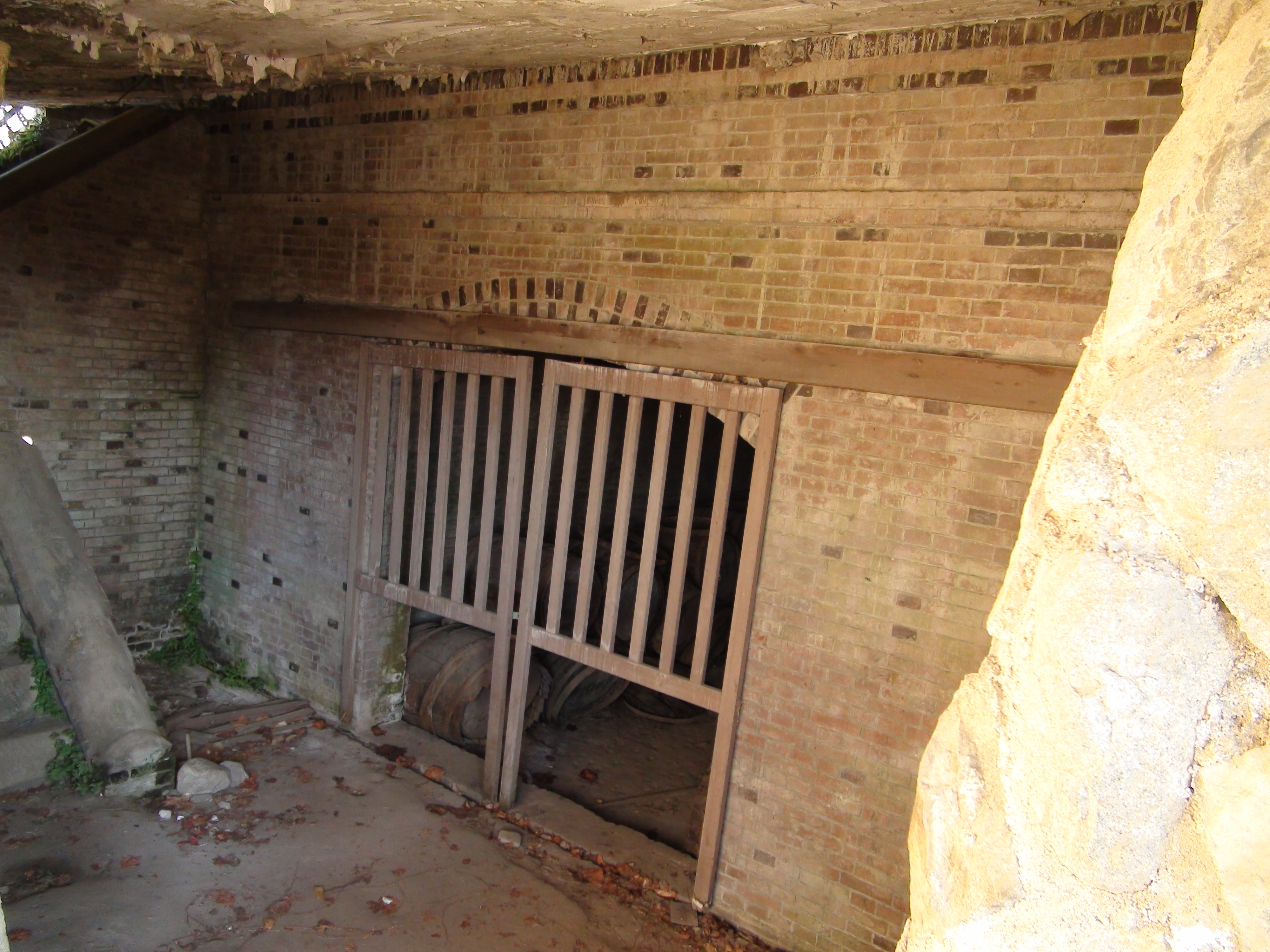 The inside of Ryuken cellars was photoed from the closed entrance gate.